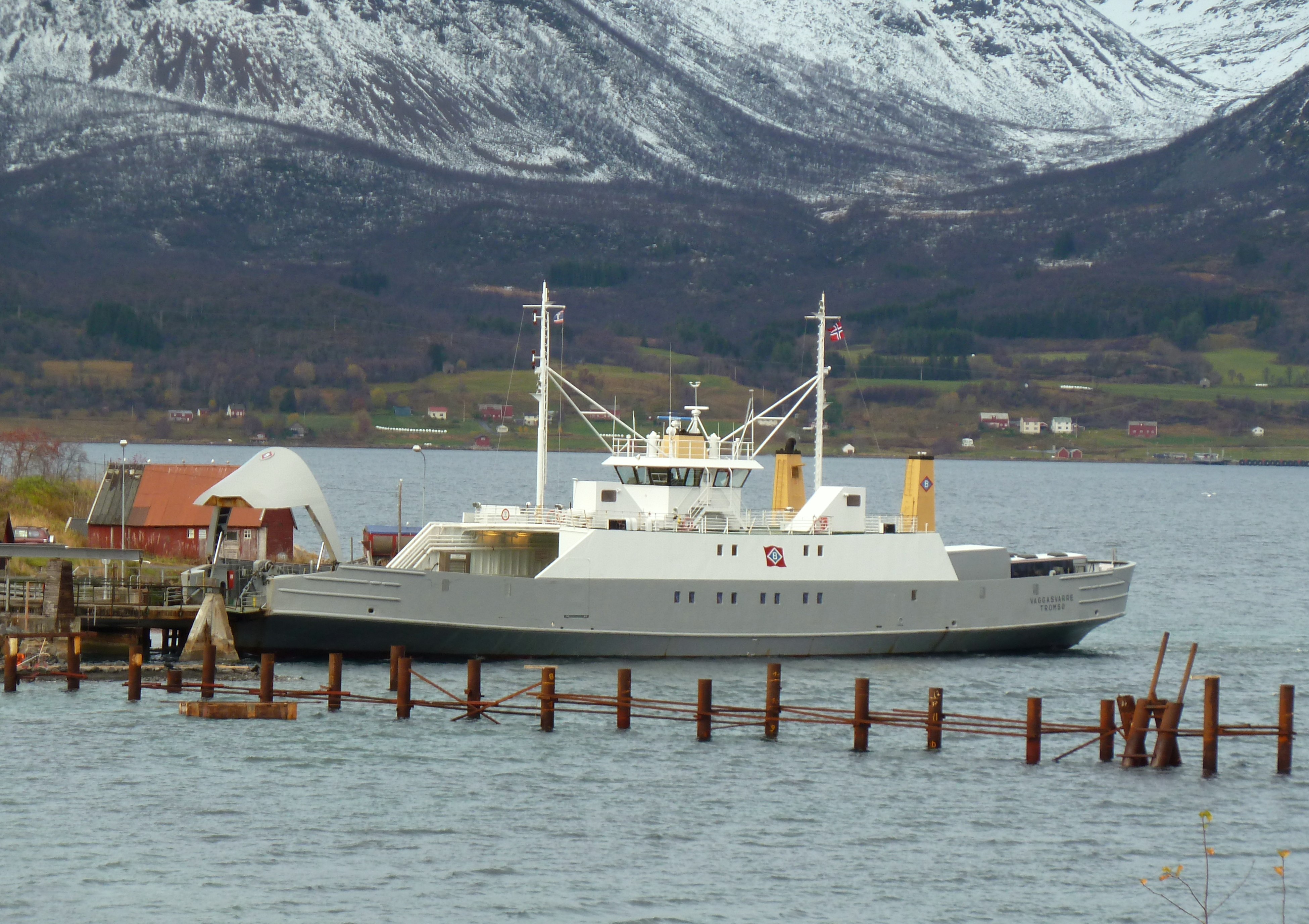 MF Vaggasvarre, ex Gjemnes, at Stornes in Harstad in 2010. Carferry owned by Bjørklids Ferry Company.